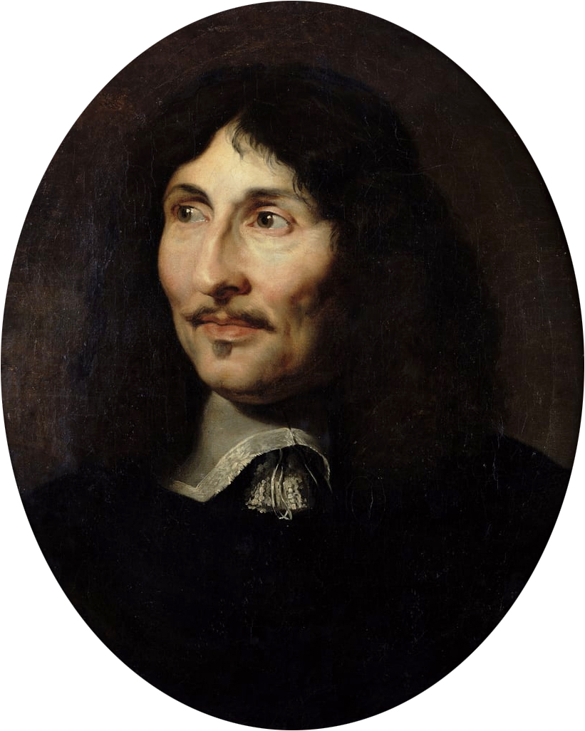 Portrait of Jean-Baptiste Colbert (1619-1683)